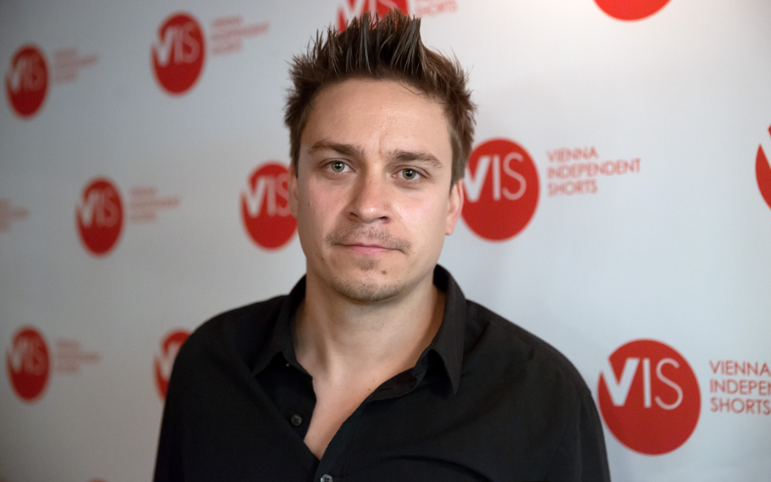 Patrick Vollrath at the opening of the film festival Vienna Independent Shorts 2015 at Gartenbaukino in Vienna, Austria.